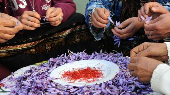 Women who harvest saffron, one of the most expensive plants in the world, the harvesting happen in the early hours of the morning This is an image of "African people at work" from Morocco